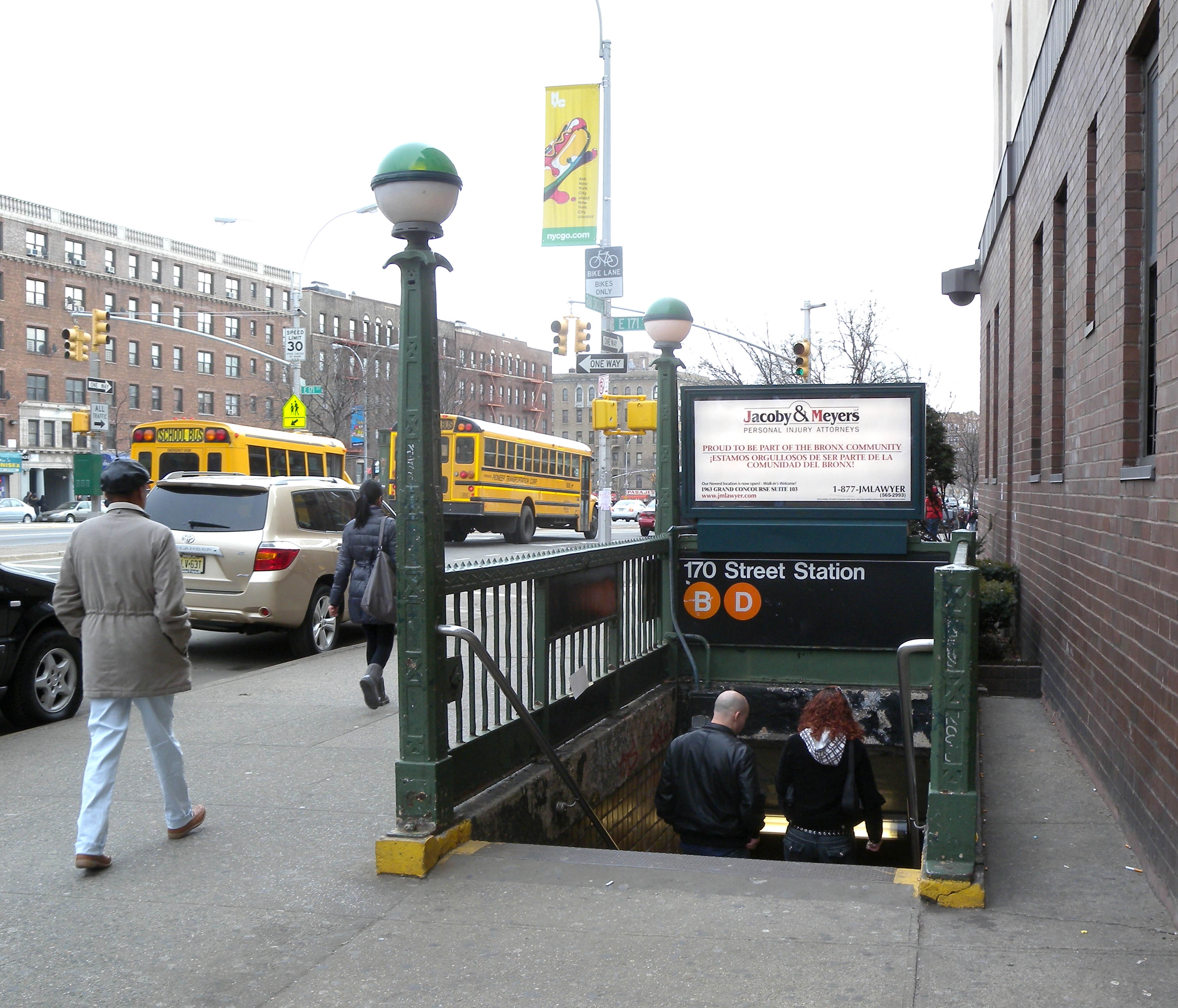 Looking south at en:170th Street (IND Concourse Line) street stair on a cloudy afternoon.